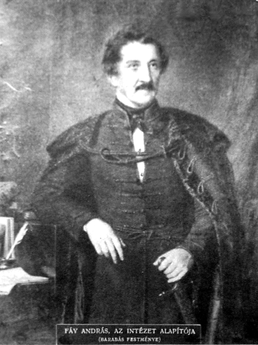 András Fáy de Pécel (1786–1864), Hungarian nobleman, politician, poet and writer.